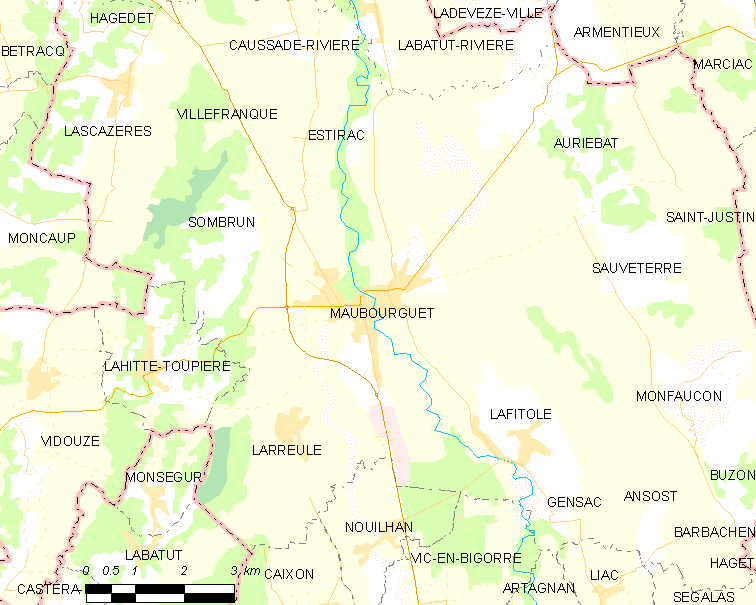 Map of French municipality